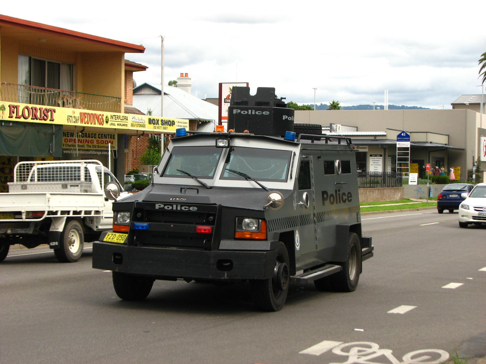 Tactical Operations Unit assault vehicle (Lenco BearCat)